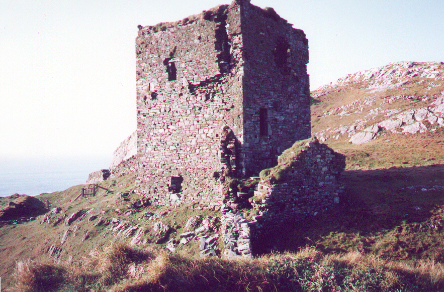 I own this. I took this photo and it is public domain.